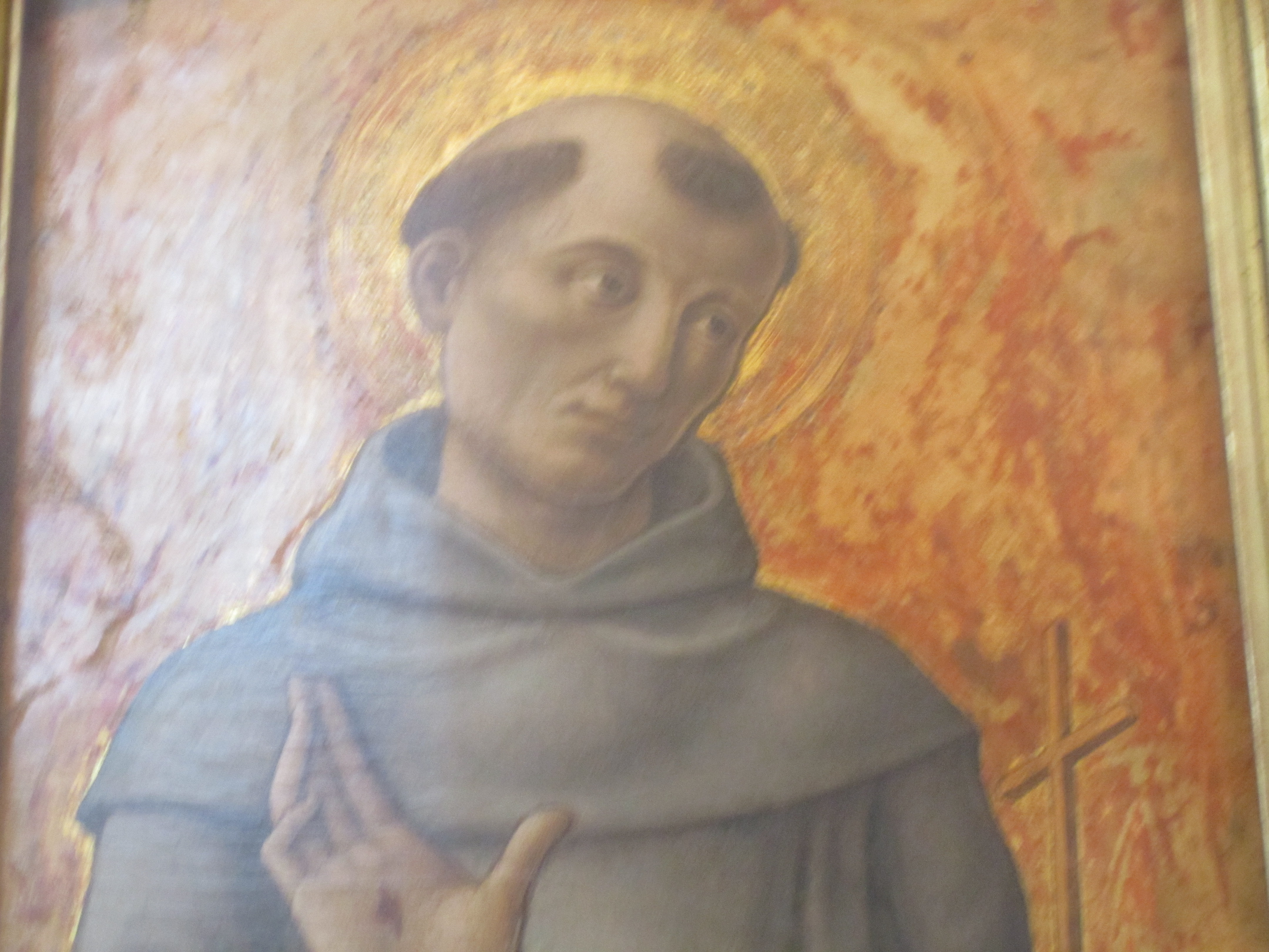 I took photo with Canon camera of St. Francis of Assisi by Vivarini in Brooklyn Museum.